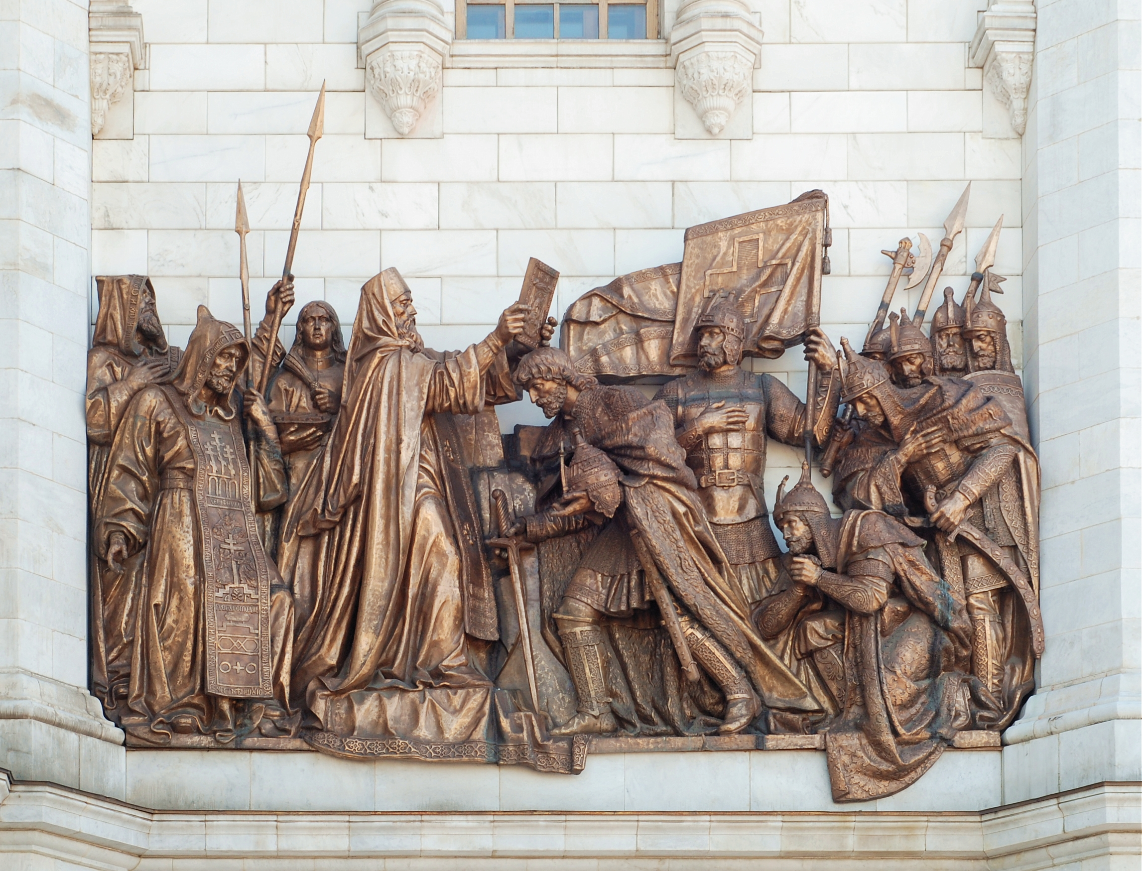 Sculpture in the facade of the Cathedral of Christ the Saviour, Moscow